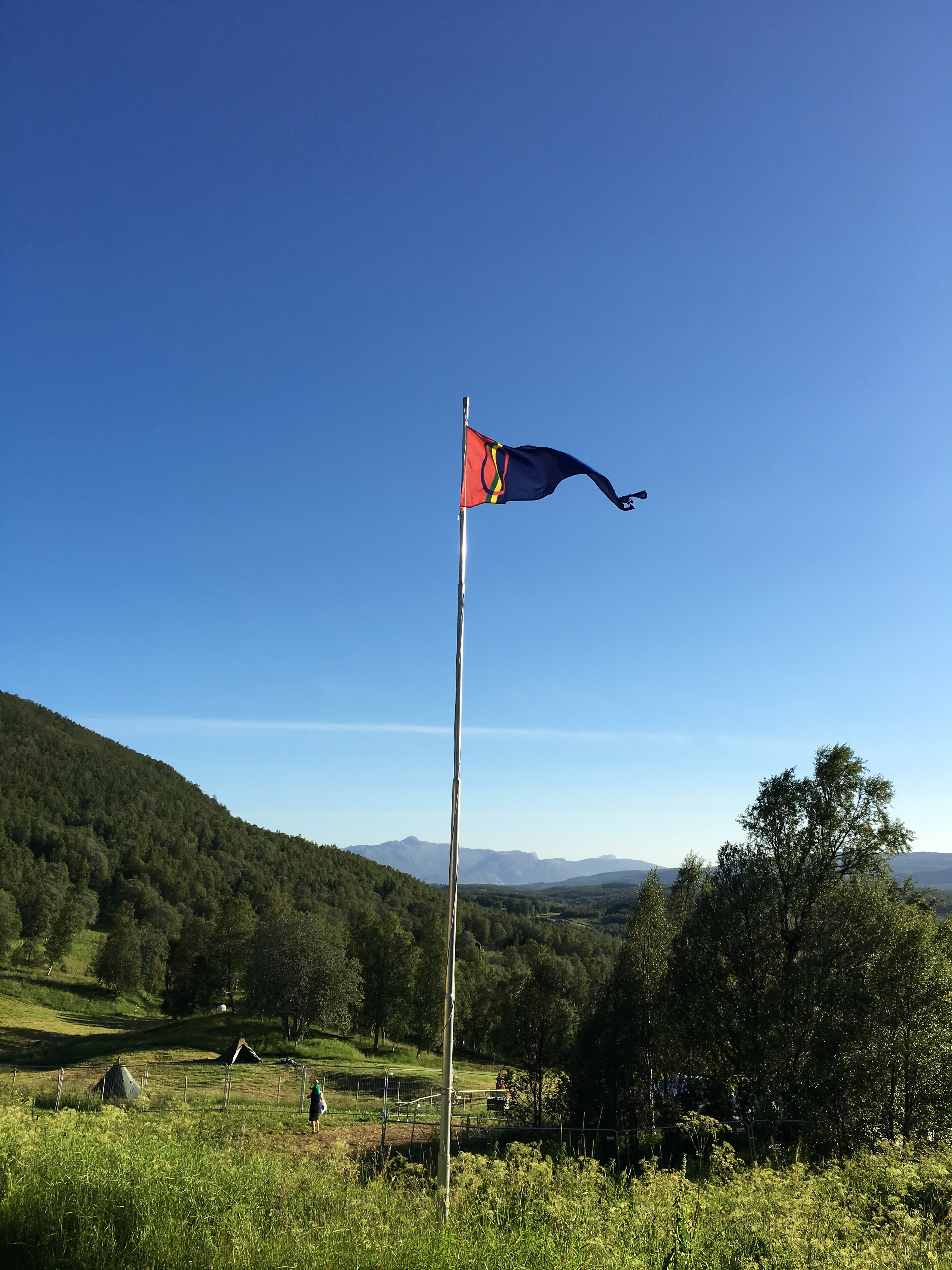 Sami flag at Márkomeannu 2018